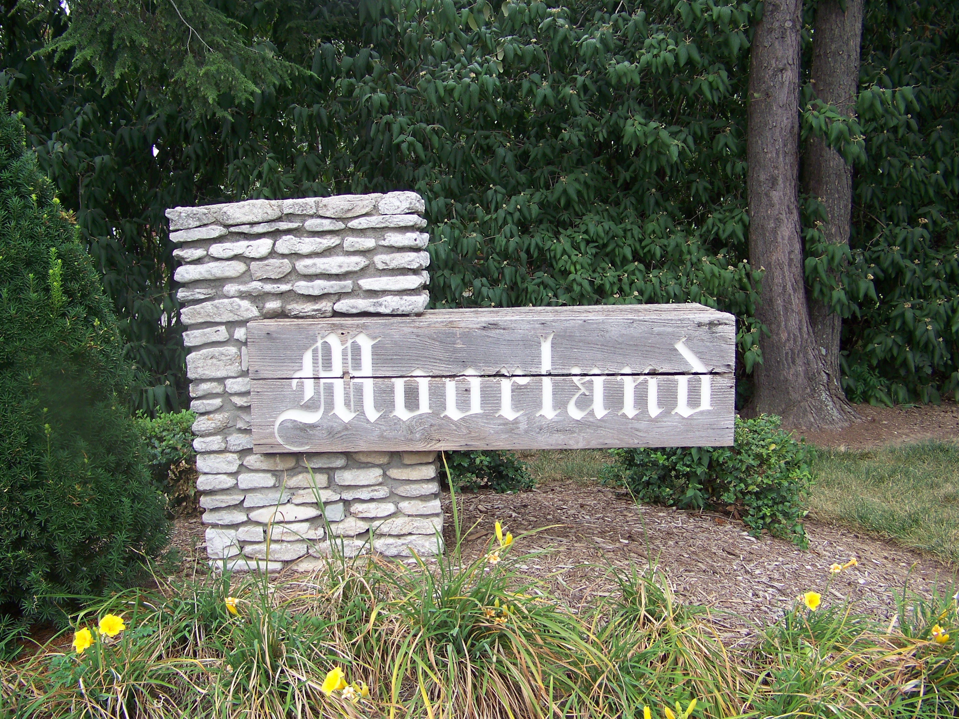 another Moorland Kentucky entry sign